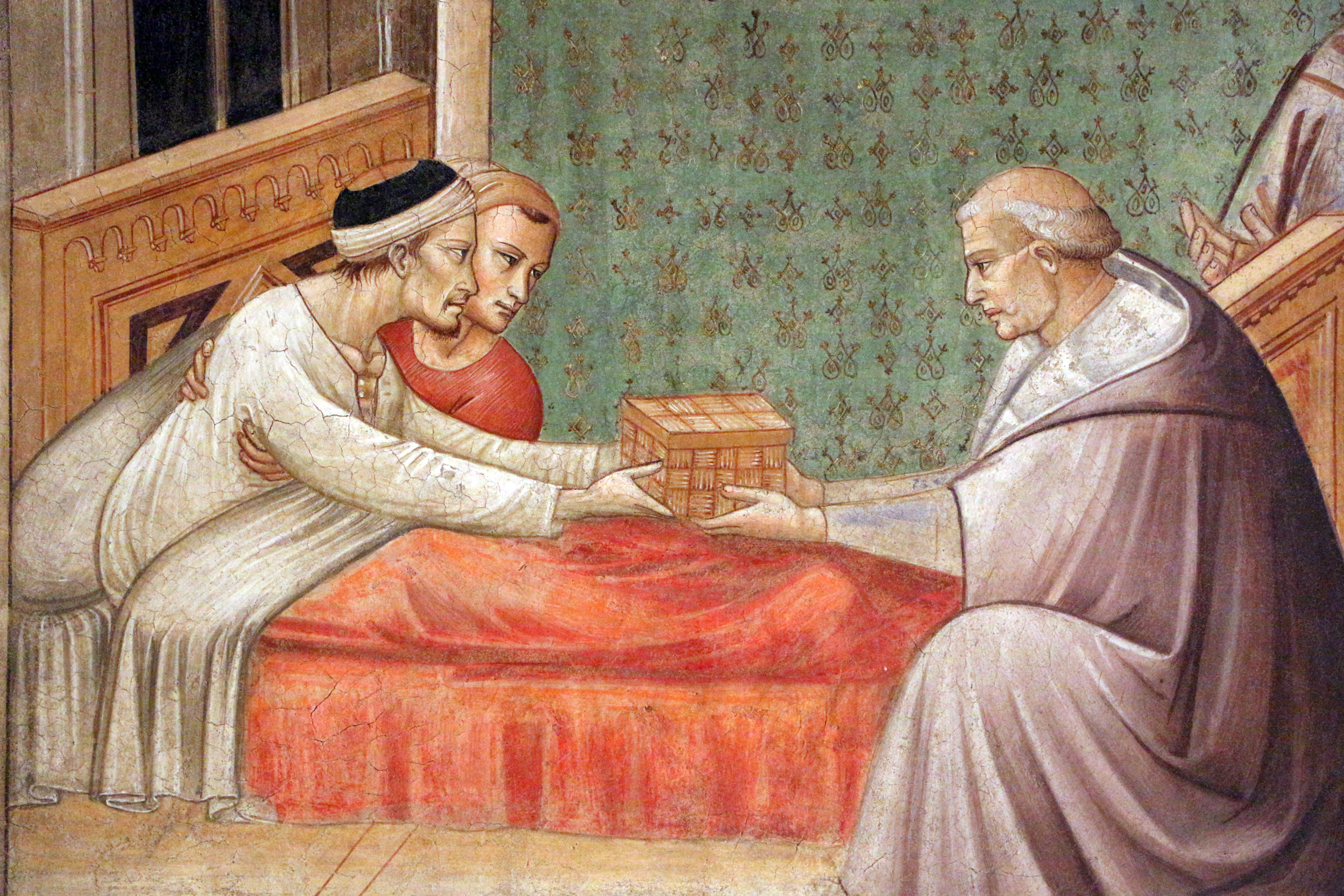 Cappella del Sacro Cingolo - Frescos by Agnolo Gaddi